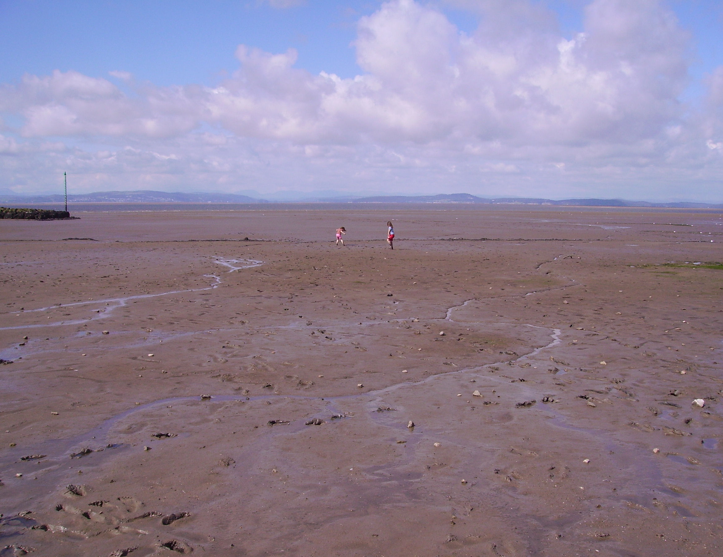 beach of Morecambe, United Kingdom